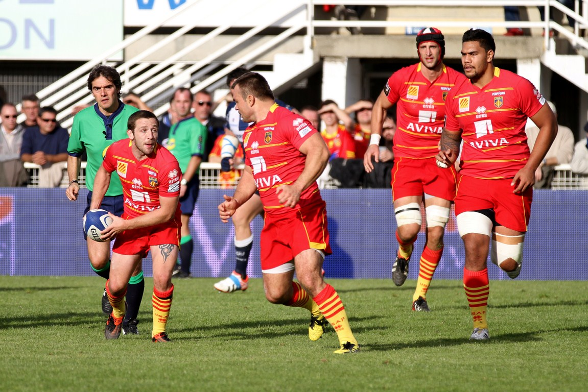 David Mélé à Castres lors de la 10ème journée de Top 14